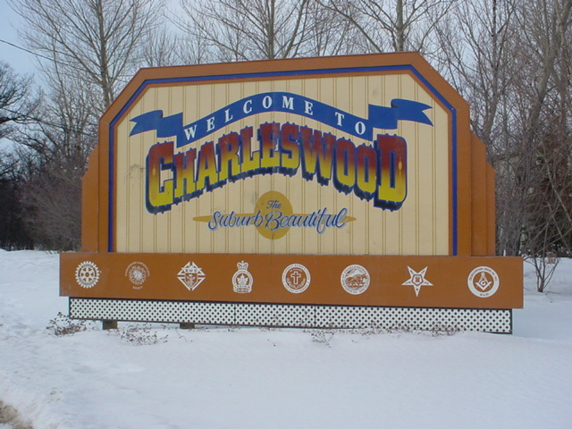 Charleswood